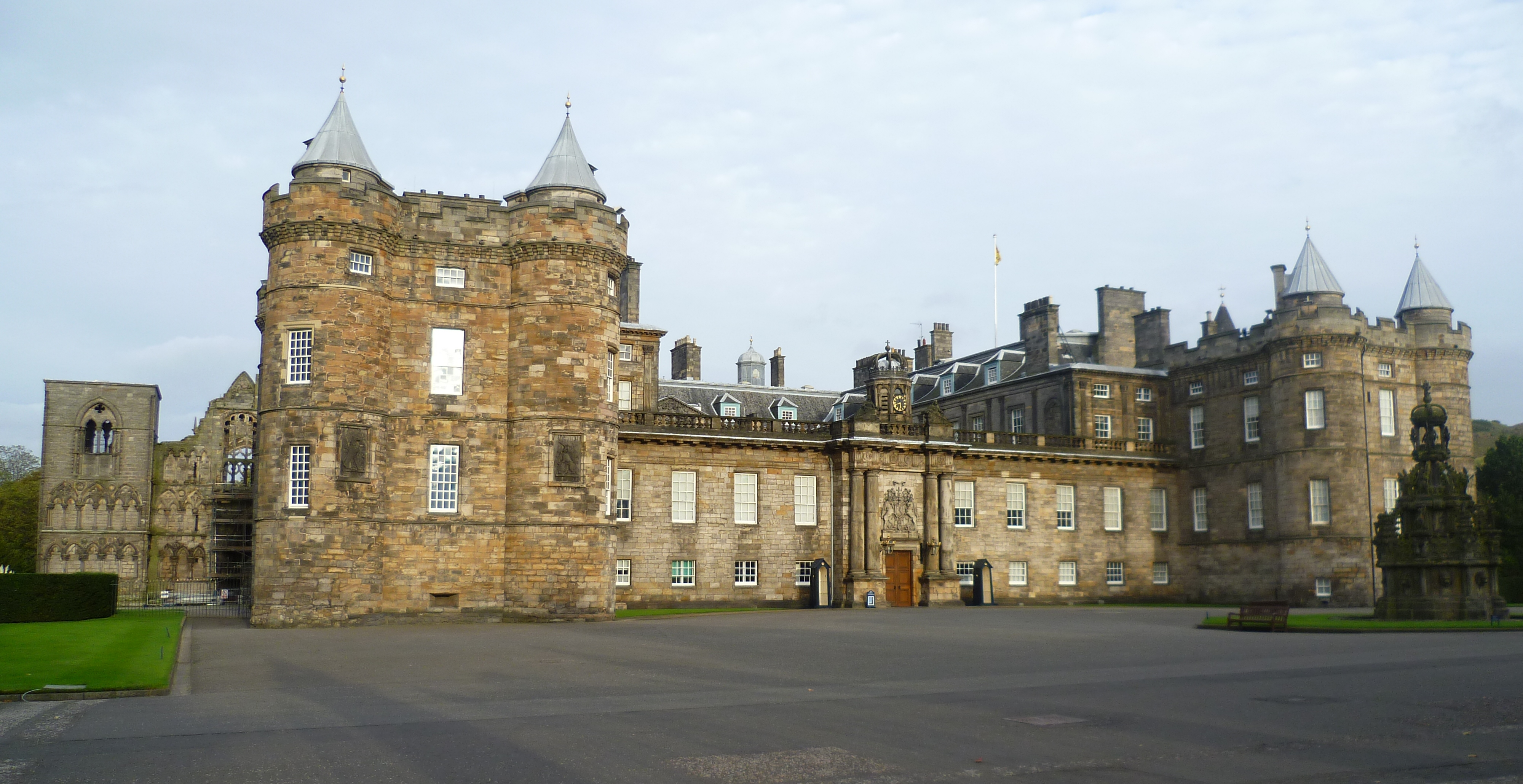 Palace of Holyroodhouse, Edinburgh "It is a matter worthy of one's inquiry, how a nation, as Scotland, so much addicted to military arts and so constantly engaged in both foreign and domestic wars, should have been in a capacity to erect such superb edifices as that kingdom abound in..." -- John Slezer, Theatrum Scotiae, 1693